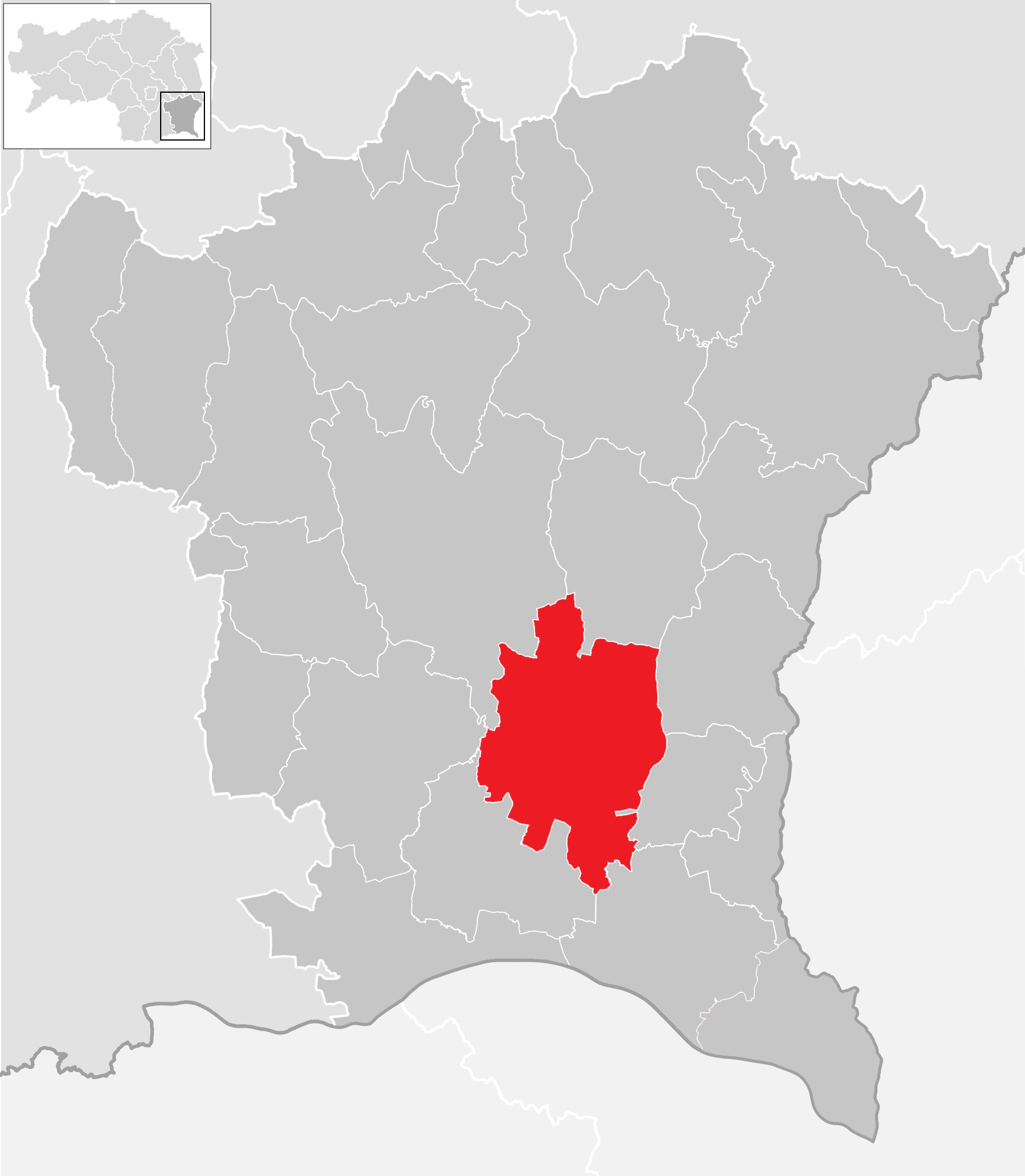 district Südoststeiermark